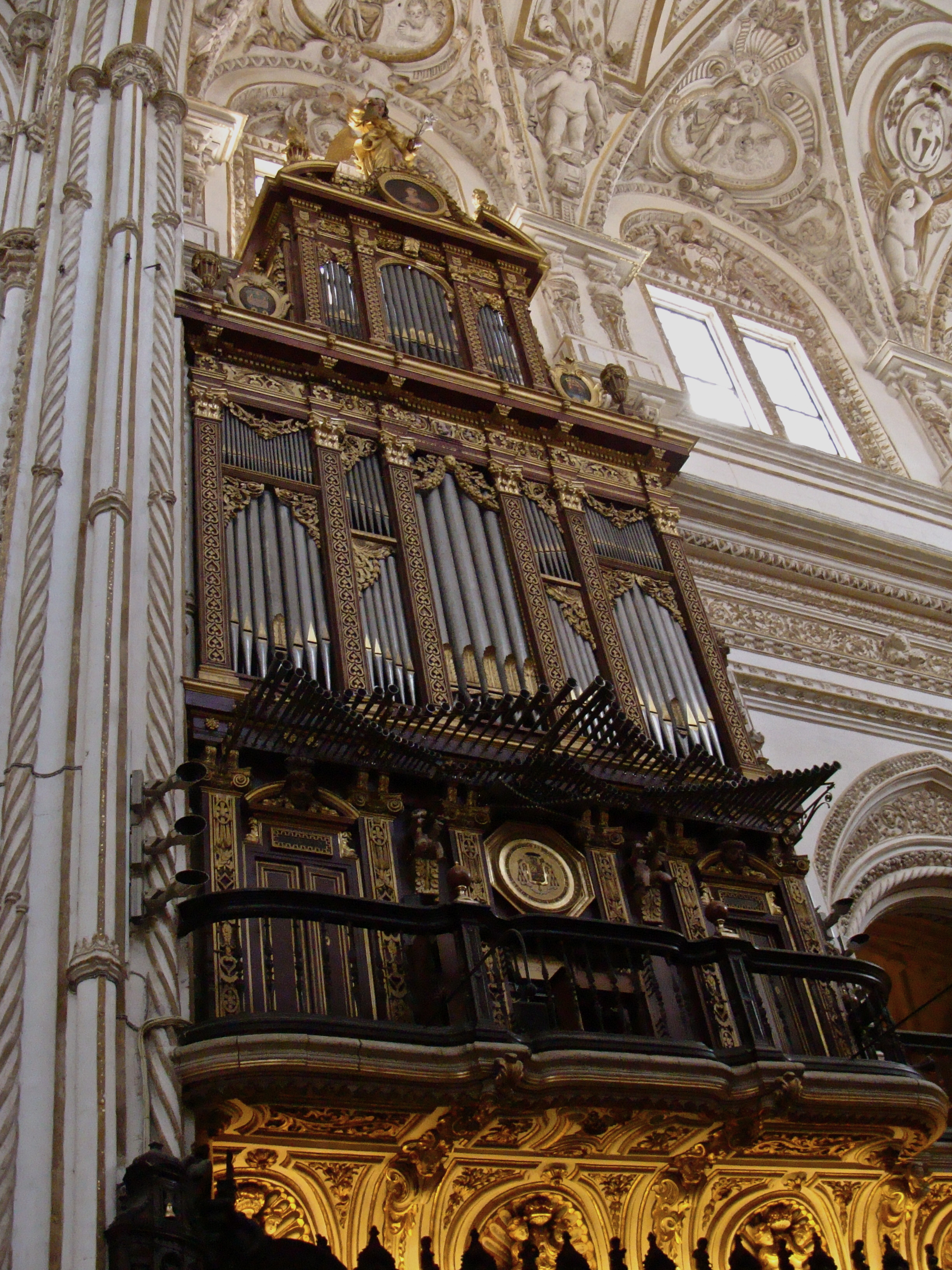 Organ in the Cathedral (former Mosque) of Cordoba, Andalusia, Spain